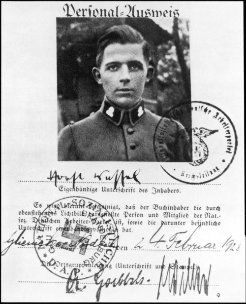 This is the Nazi party membership book photo-ID page for Horst Ludwig Wessel (1907-1930), a German Nazi Party activist and an SA-Sturmführer who was made a posthumous hero of the Nazi movement following his assassination in 1930. He was the author of the lyrics to the song "Die Fahne hoch" ("The Flag On High"), usually known as the Horst-Wessel-Lied, which became the Nazi Party anthem and, de facto, Germany's co-national anthem from 1933 to 1945. Signed by Joseph Goebbels, Gauleiter of Berlin.